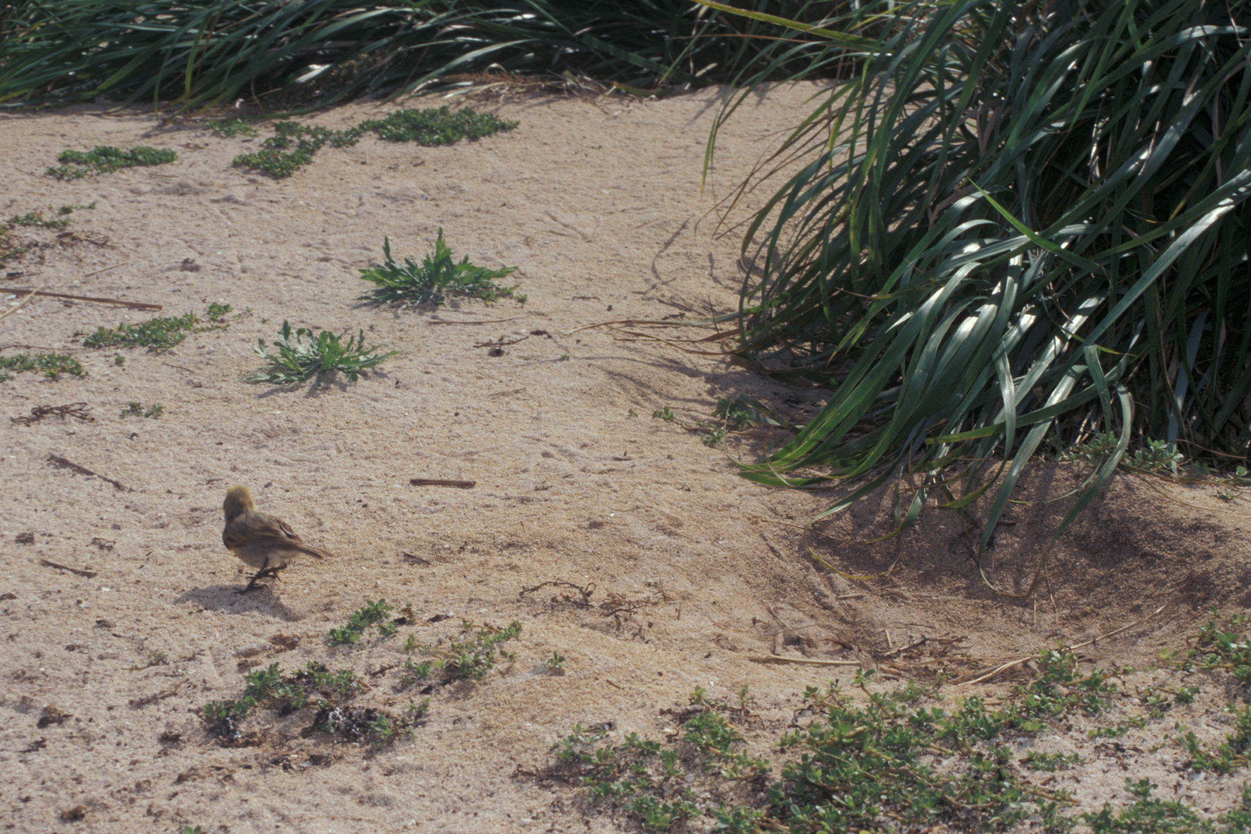 Eragrostis variabilis (with Laysan finch). Location: Laysan Island, By camp